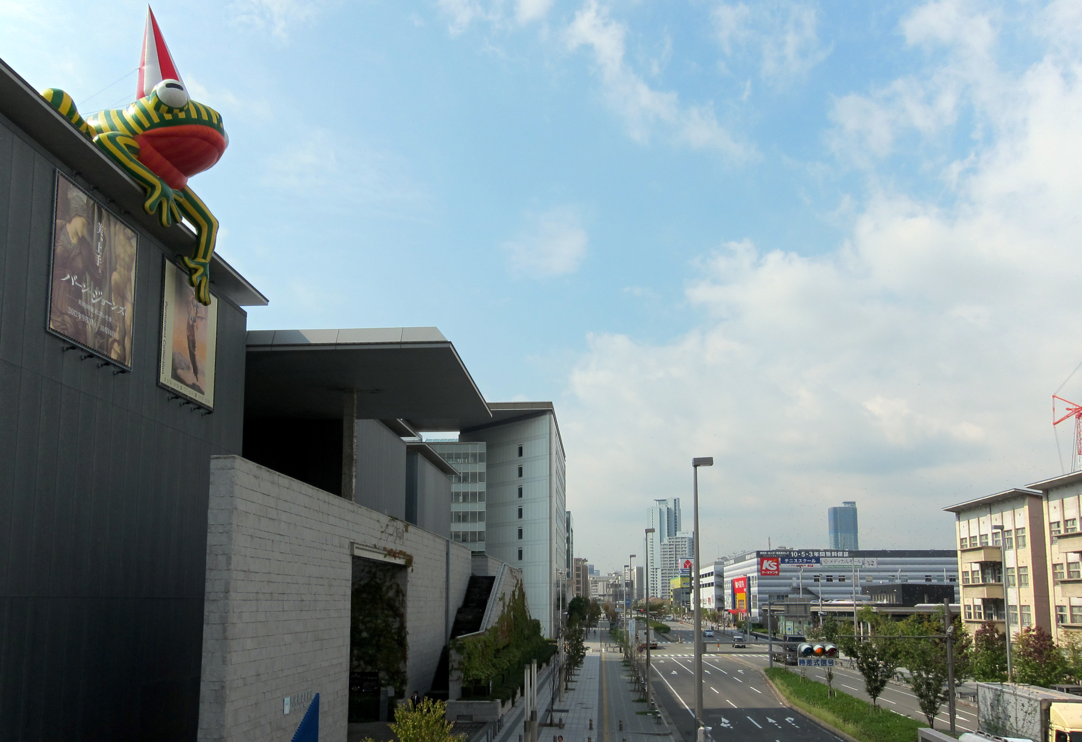 Hyogo Prefectural Museum of Art (兵庫県立美術館), Kobe, Hyogo prefecture, Japan